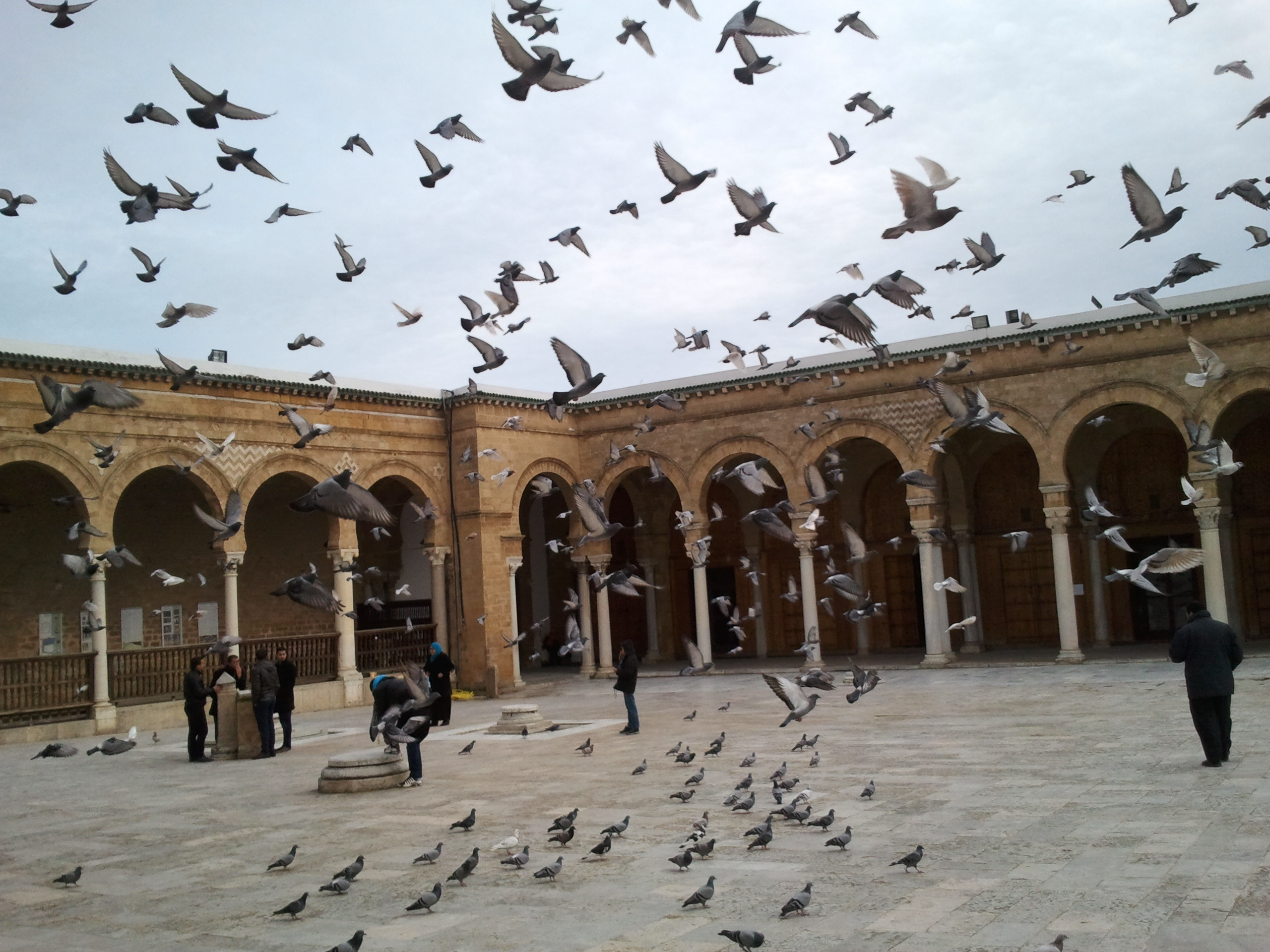 Pigeons in the courtyard of a mosque Zaytuna in Tunisia